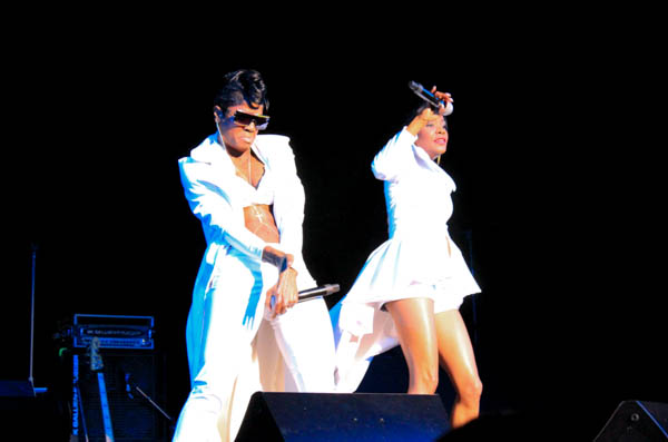 Pamela Long (left) and Kima Raynor Dyson (right) of the group Total perform at the Legends of Bad Boy concert on Nov. 21, 2014 in Beverly Hills, California.